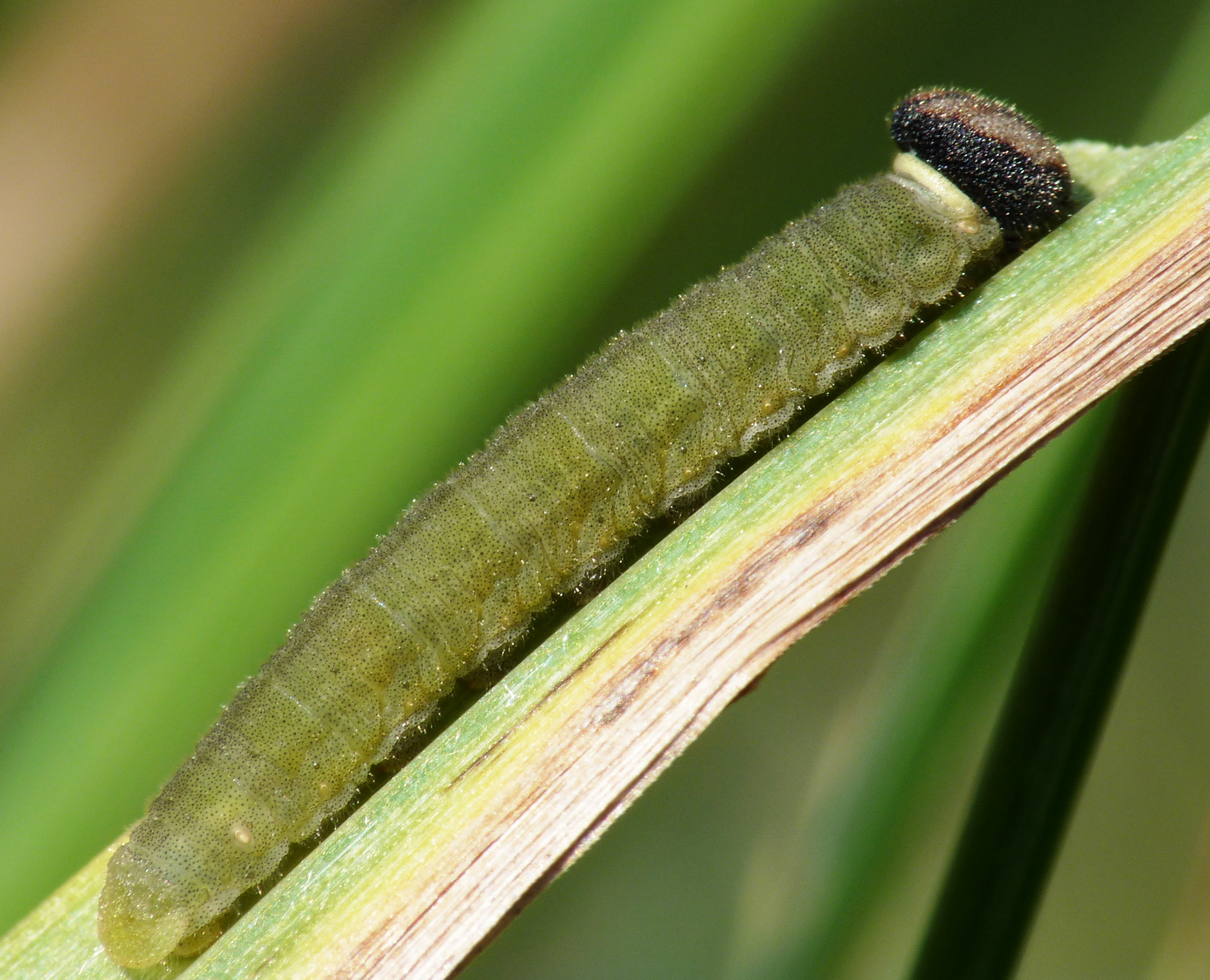 Caterpillar of Ochlodes sylvanus, near Livorno, Tuscany, Italy